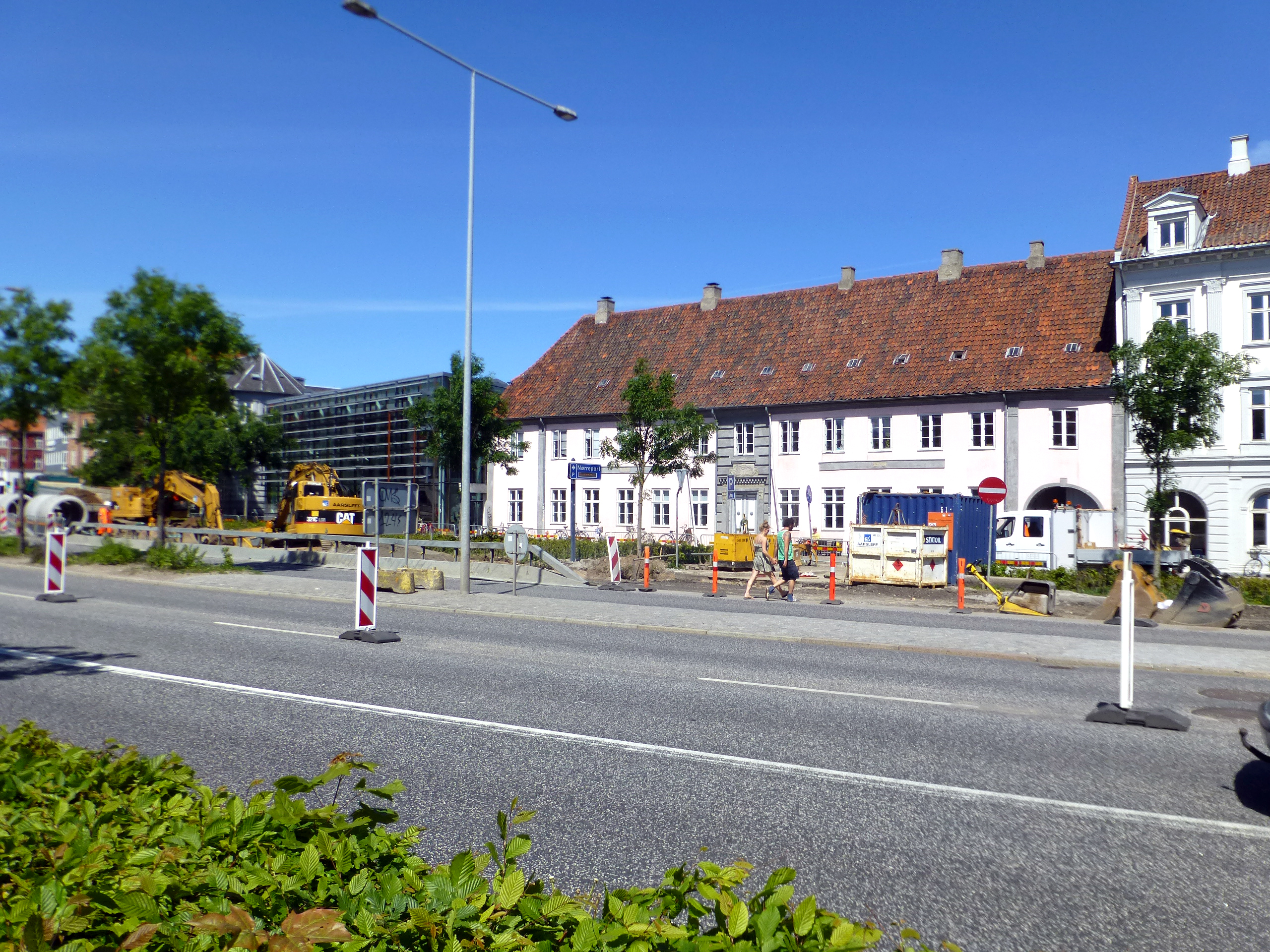 Headquarters for the School of Architecture in Aarhus, Denmark. The pink building is an old listed merchant's house from 1798.